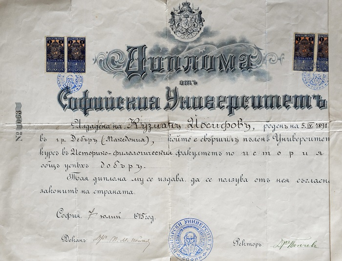 Kuzman Yosifov Sofia University Diploma 1915